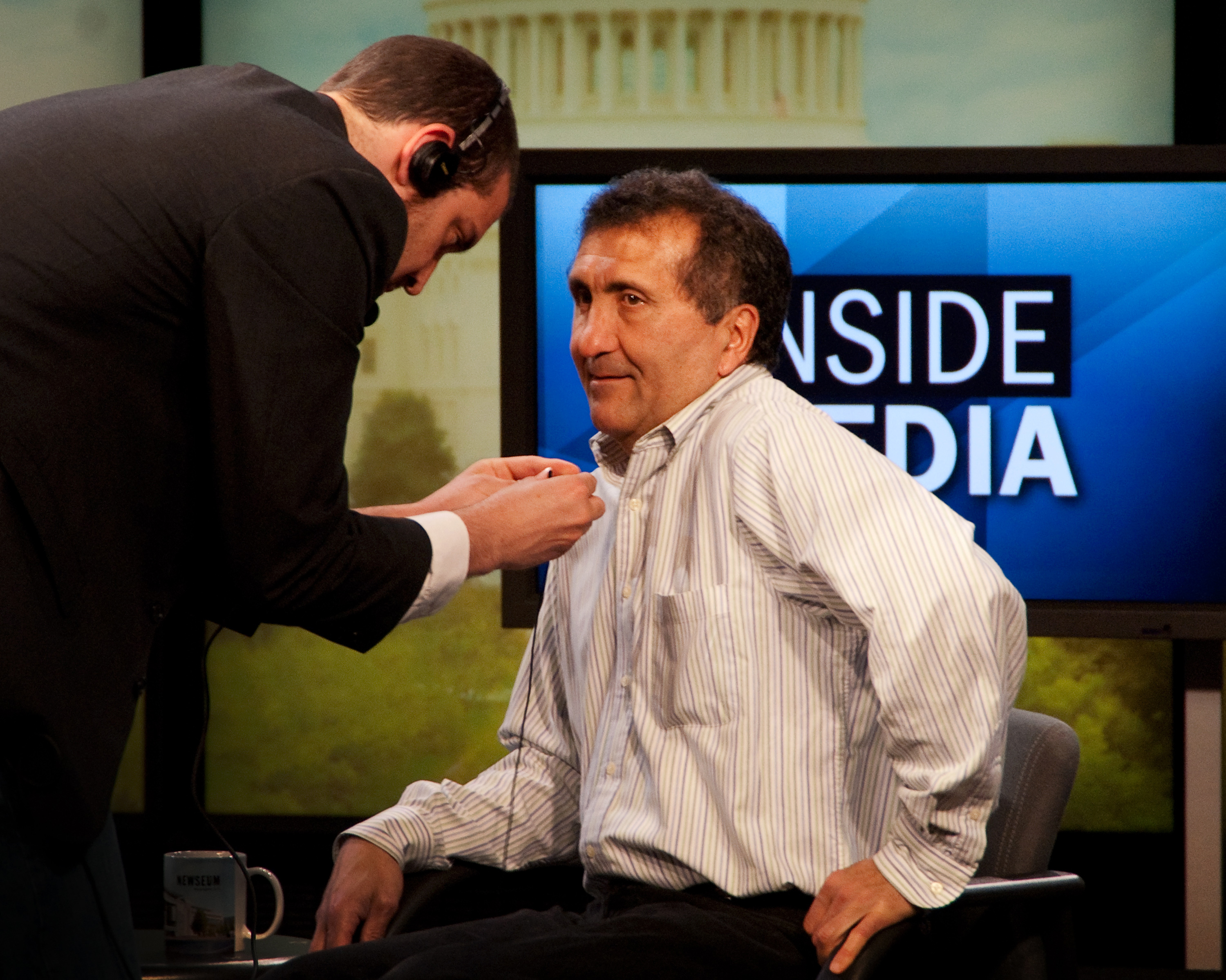 Pete Souza prepares for a live internal broadcast at the Newseum in Washington D.C.